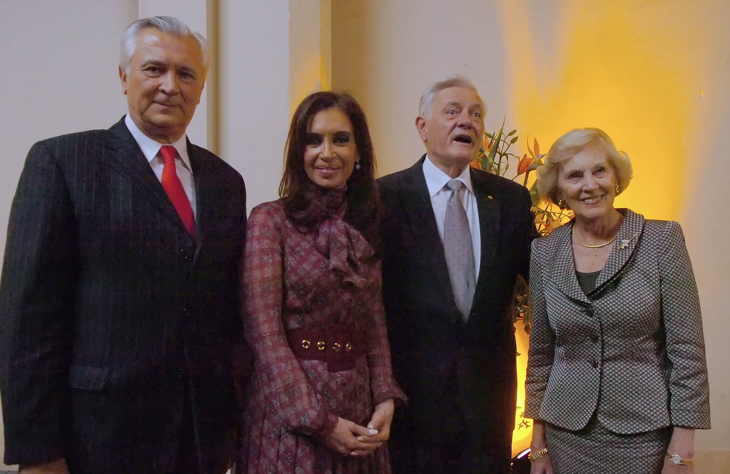 The Mayor of General San Martín Partido (Buenos Aires, Argentina), Ricardo Ivoskus, the President of Argentina, Cristina Fernández de Kirchner, the President of Lithuania, Valdas Adamkus and his spouse.